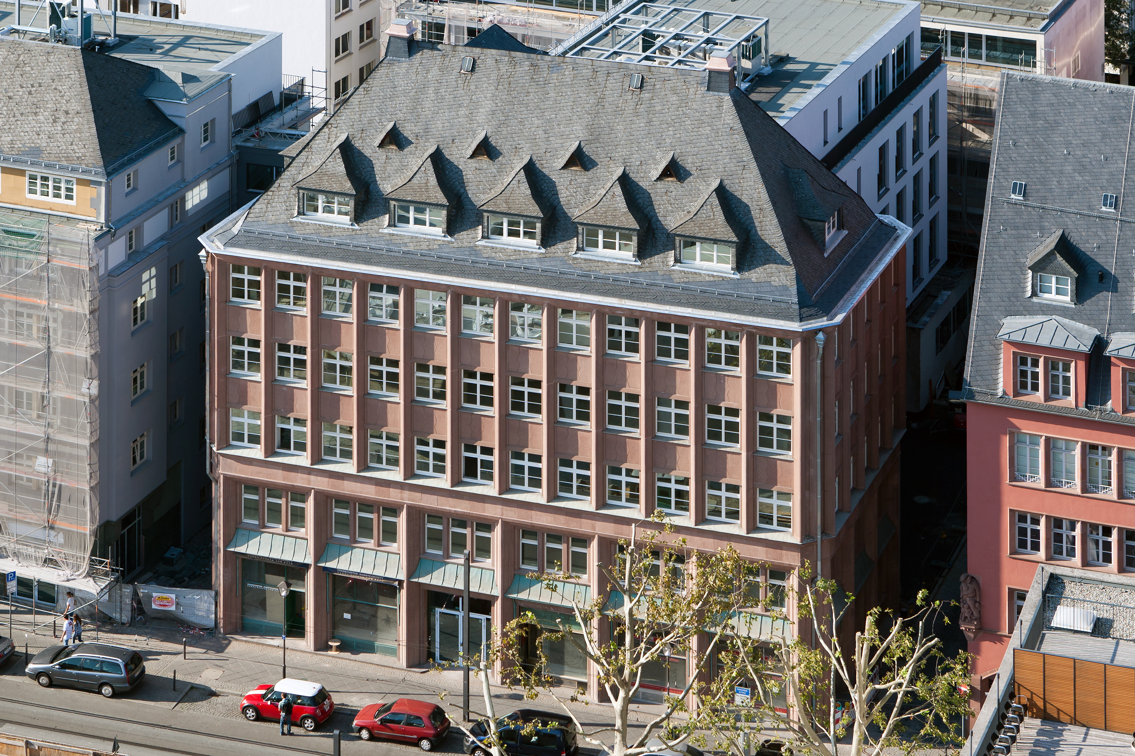 Frankfurt on the Main: Braubachstraße (Braubach Street) 14–16 as seen from the tower of Kaiserdom St. Bartholomaeus (Frankfurt Cathedral)